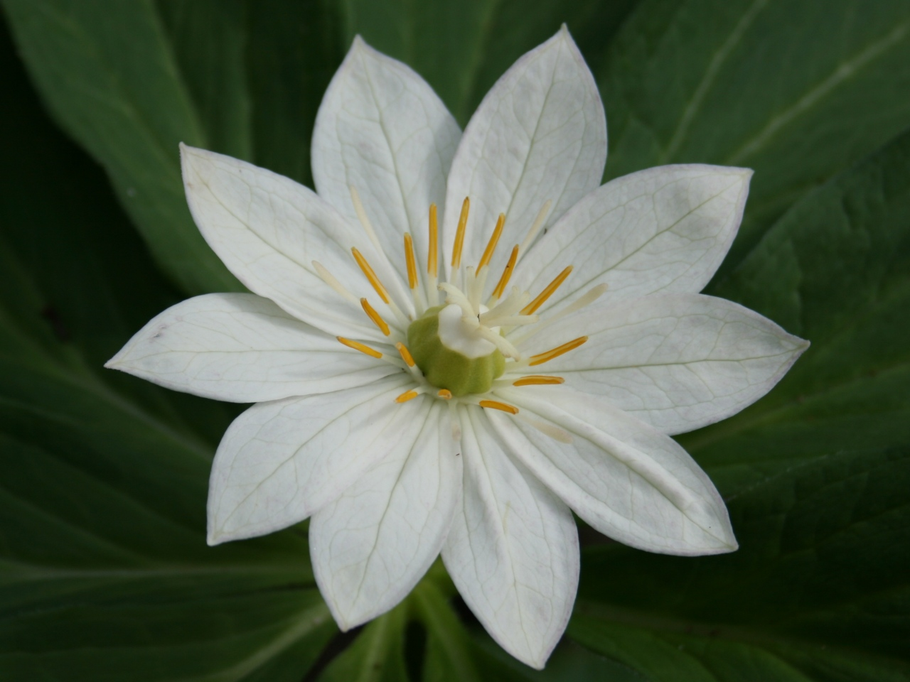 1＝Kinugasa japonica (Paris japonica), in Mount Haku, Shirakawa, Gifu prefecture, Japan.